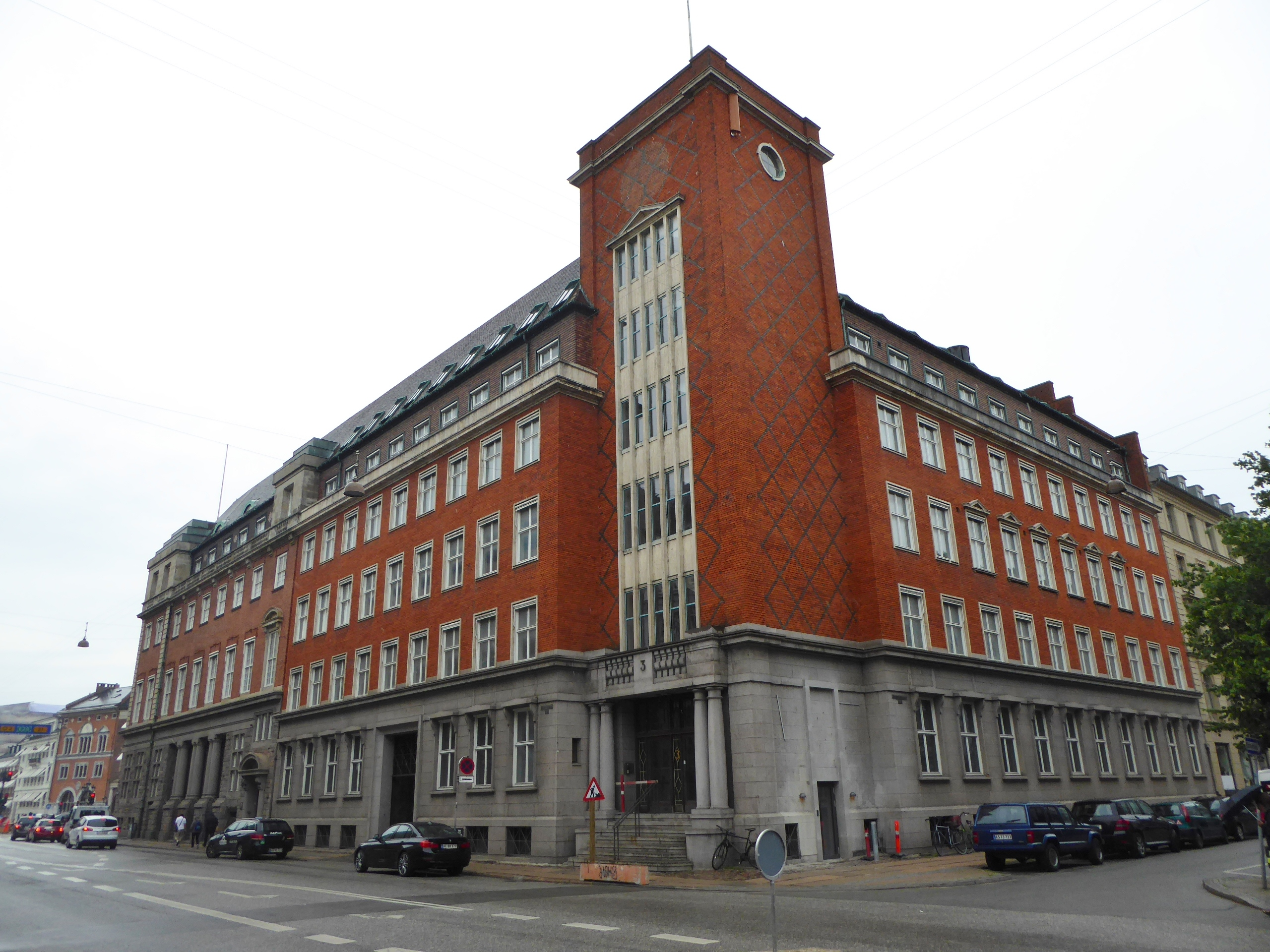 The former headquarters of the Danish insurance company Hafnia at the corner of Holbergsgade and Tordenskjoldsgade in Indre By in Copenhagen.